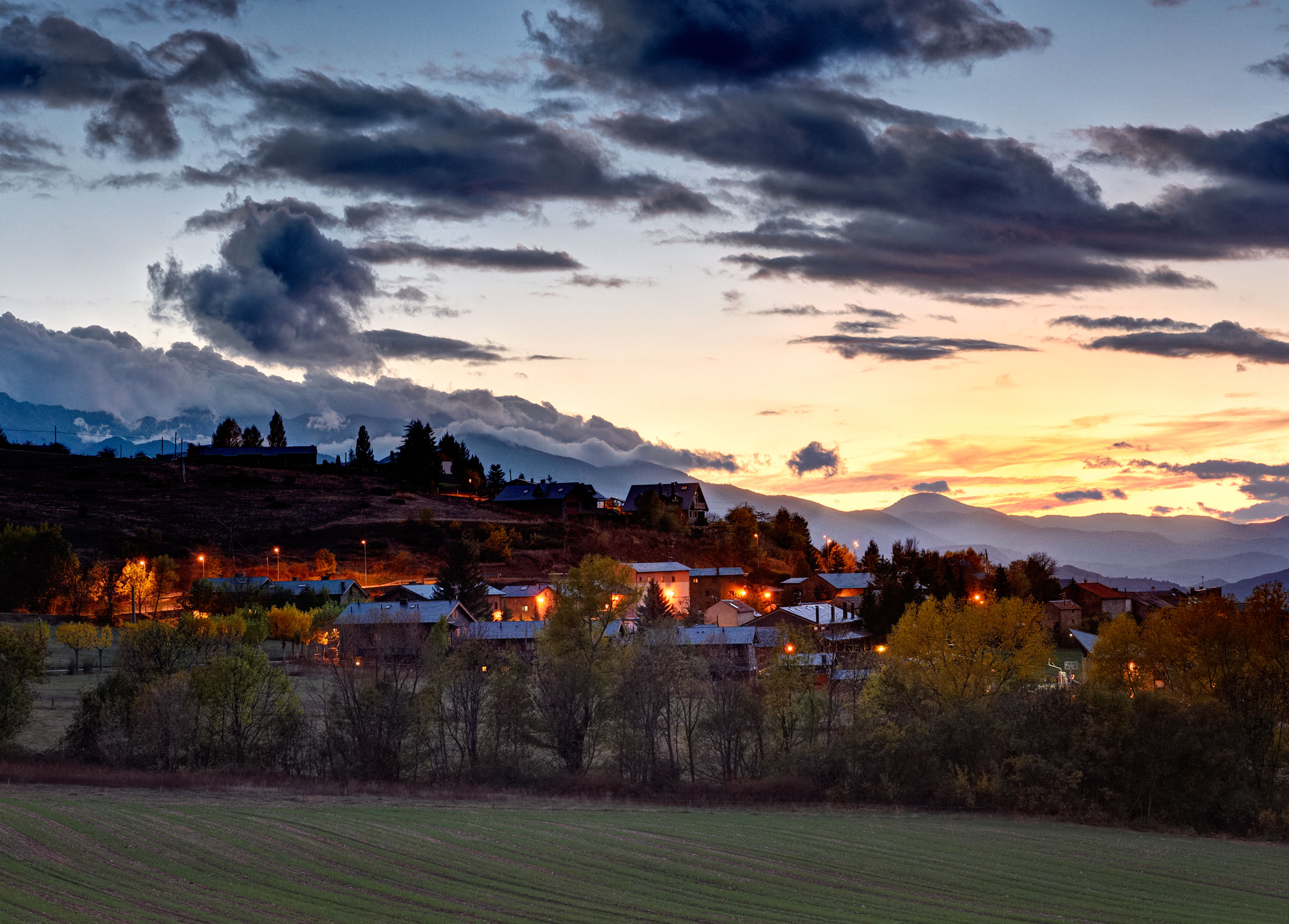 Sunset in Fontanals de Cerdanya (Catalonia, Spain)